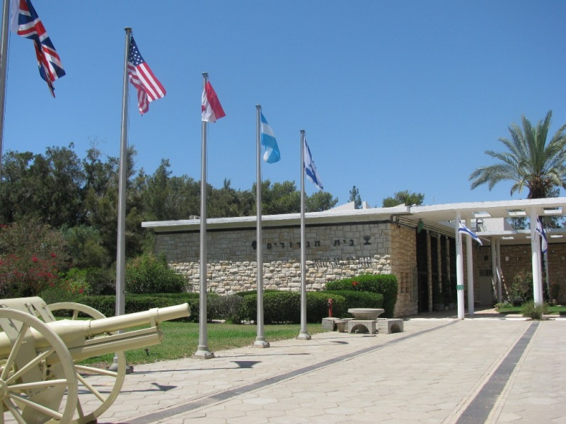 המוזיאון הוקם ב-1961, ונועד להנציח את הגדודים היהודיים שלחמו בצבא הבריטי בארץ ישראל, אשר יוצאיהם הקימו את היישוב בו שוכן המוזיאון. בעבר התקיימו בו אירועי תרבות, הצגות וסרטים. בחזיתו יש תותחים ששימשו את חיילי הבריגדה היהודית ובחדרים הפנימיים תמונות